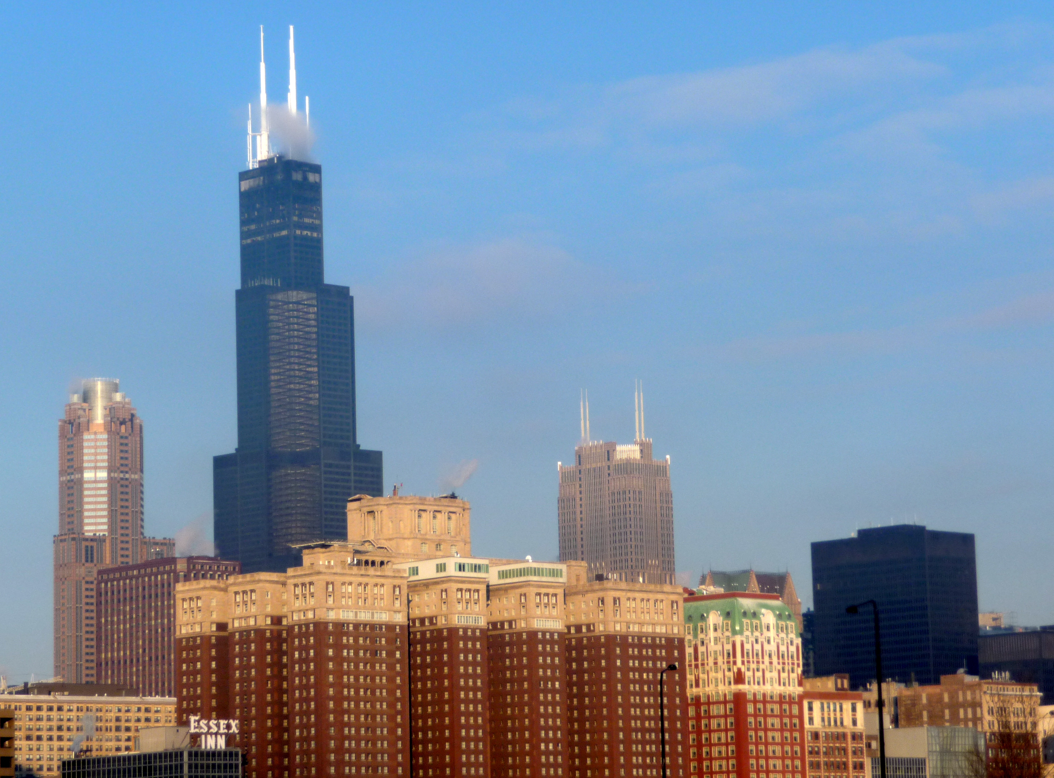 Hilton Chicago with Sears Tower in the background